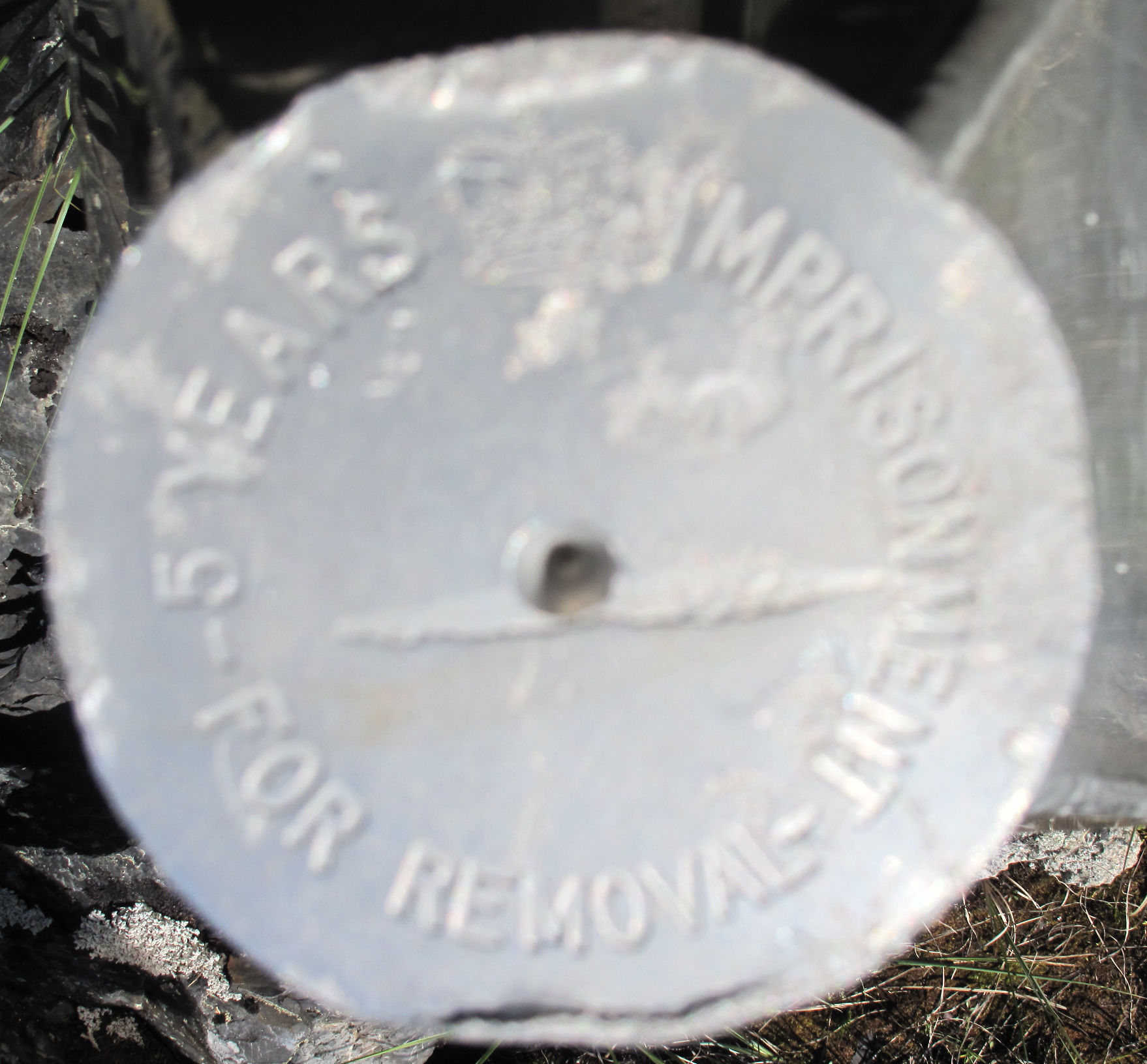 This is a picture of the disk on top of the Obelist at 4 Corners in Canada, which states 5 years of imprisonment for the removal of the monument.